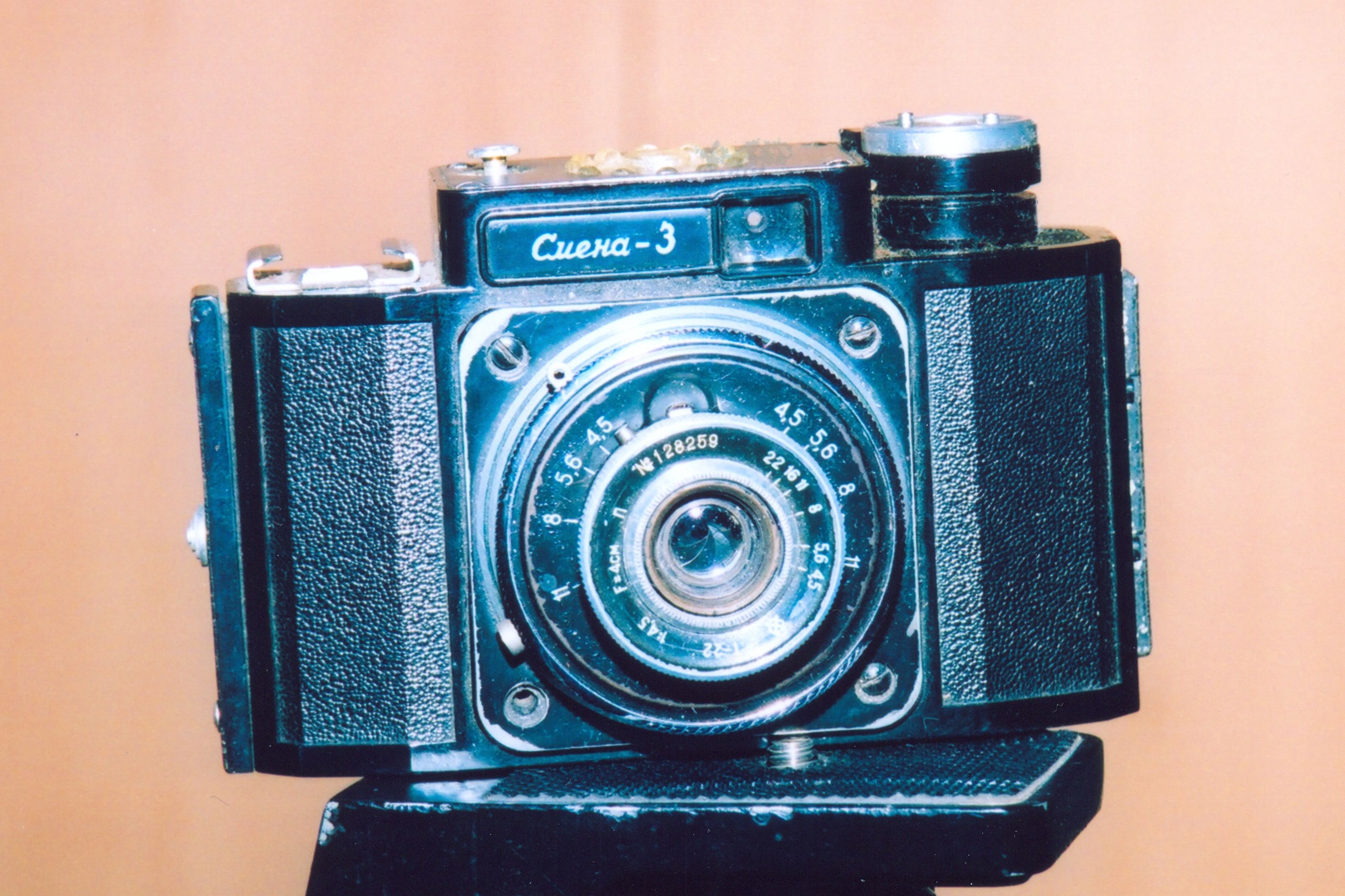 Фотоаппарат Смена-3